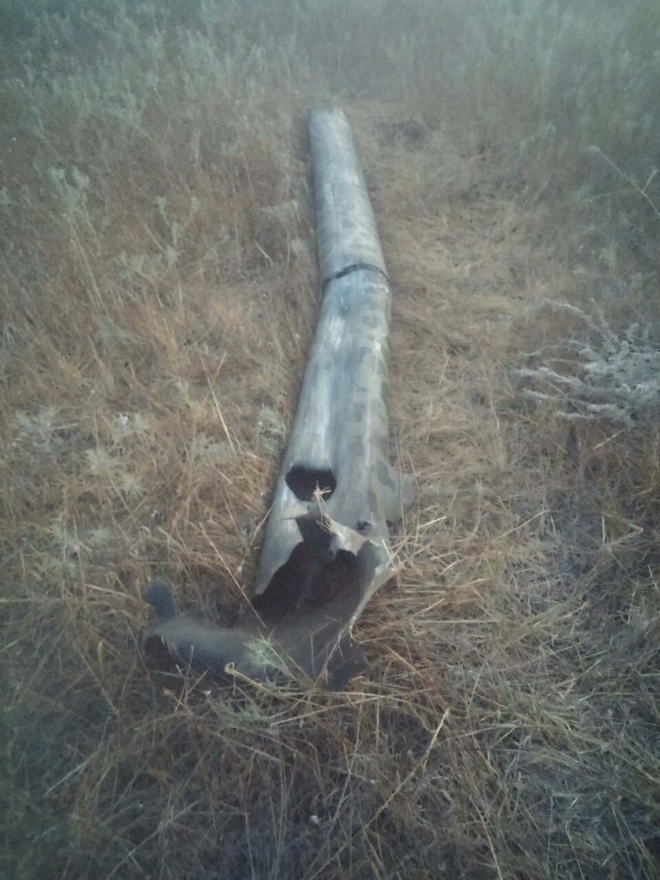 Gaza rocket falls in an open area after being intercepted by Iron Dome. For more updates: The Israel Defense Forces Facebook The Israel Defense Forces blog Follow us on Twitter